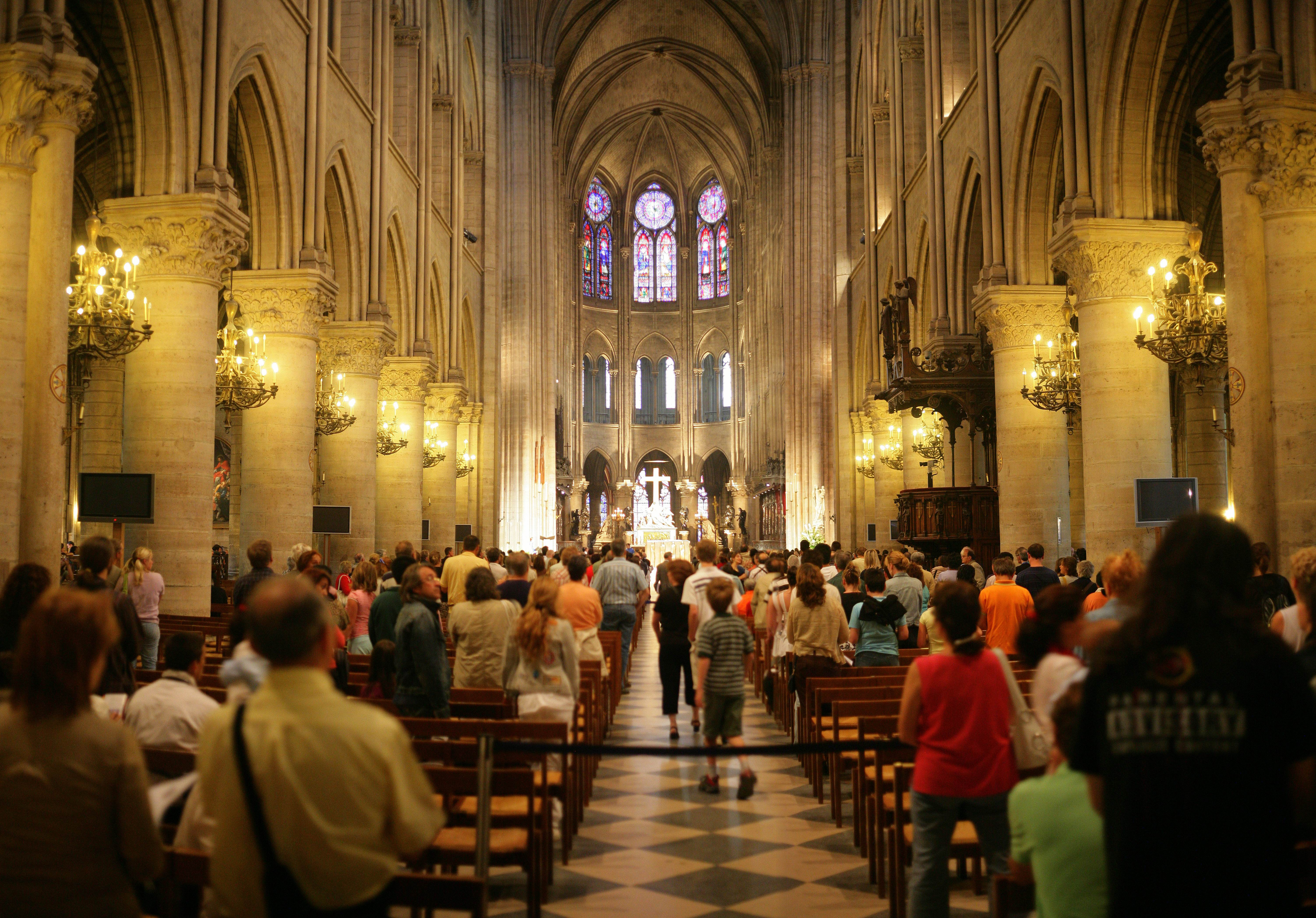 Interior of the Cathedral of Notre Dame in Paris